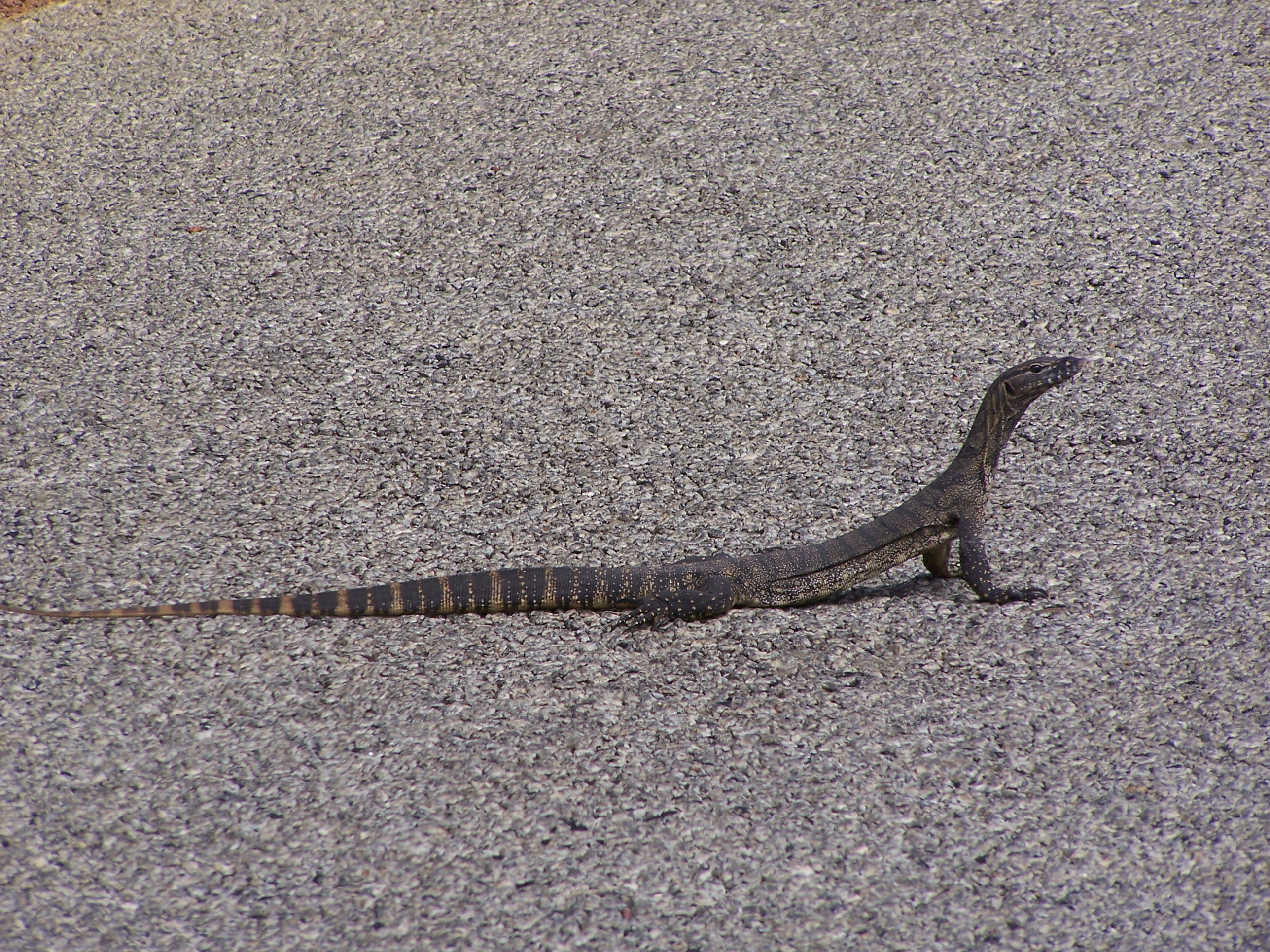 Image taken in the Stirling Range Race Horse Goanna, on the road, also know as a bungarra. Genus Varanus The subject was very patient he was sitting in the middle of the road when I went past at 110kph(68mph) pulled up got my camera out of its case walked back took this picture in the time the camera took to reset for the next image he was off the road and heading into a hollow under a fallen tree.